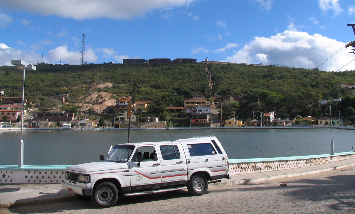 Off-Road taxi in front of a lake in the city of Triunfo in the state of Pernambuco in the northeast region of Brazil. A ropeway crosses the river and climbs up to a hotel complex.